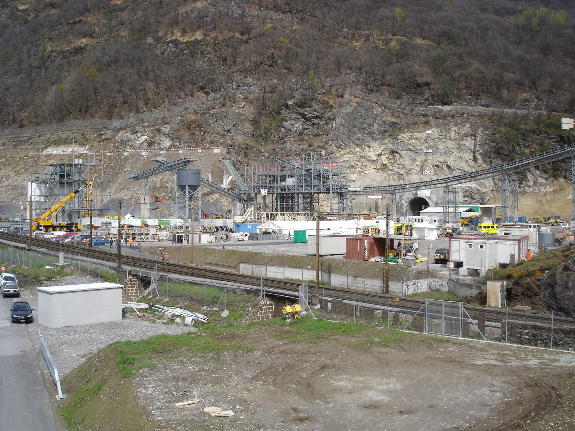 AlpTransit construction site in Sigirino.